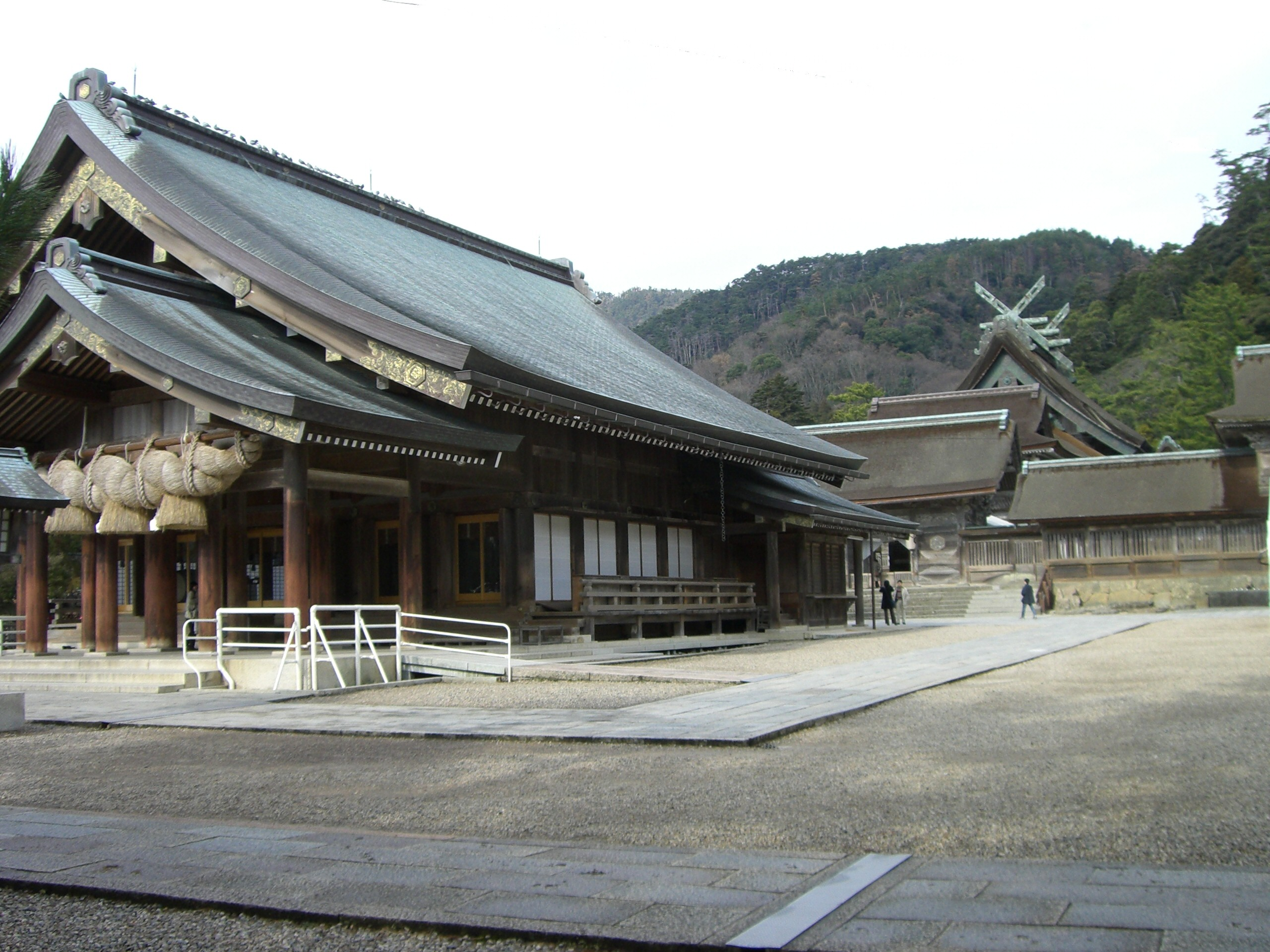 the inner sanctuary of the 出雲大社(Izumo Taisha) ; the front building is the outer shrine(Image:Izumo-shrine Haiden01.jpg)